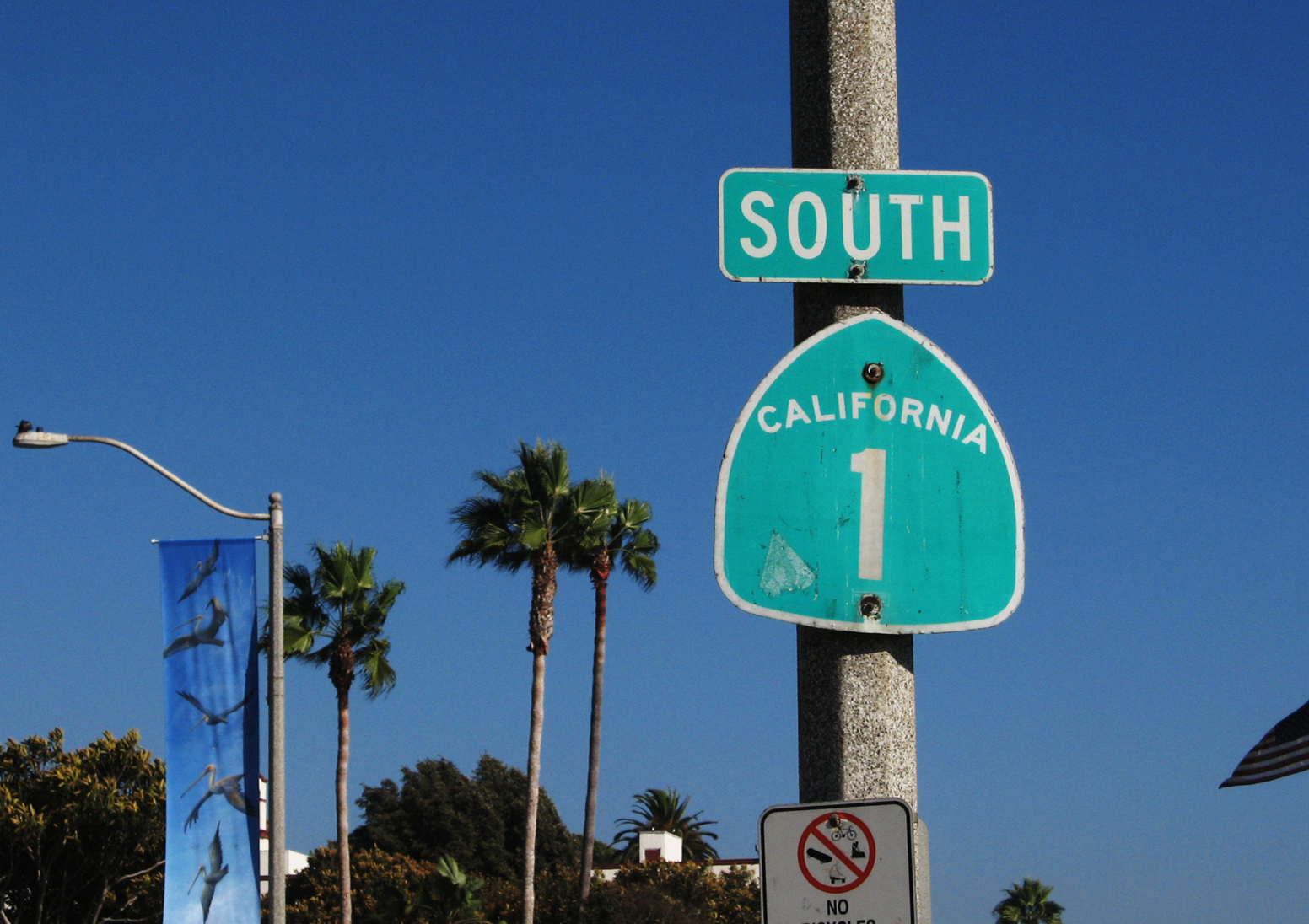 Pacific Coast Highway (California State Route 1) in downtown Laguna Beach, California.